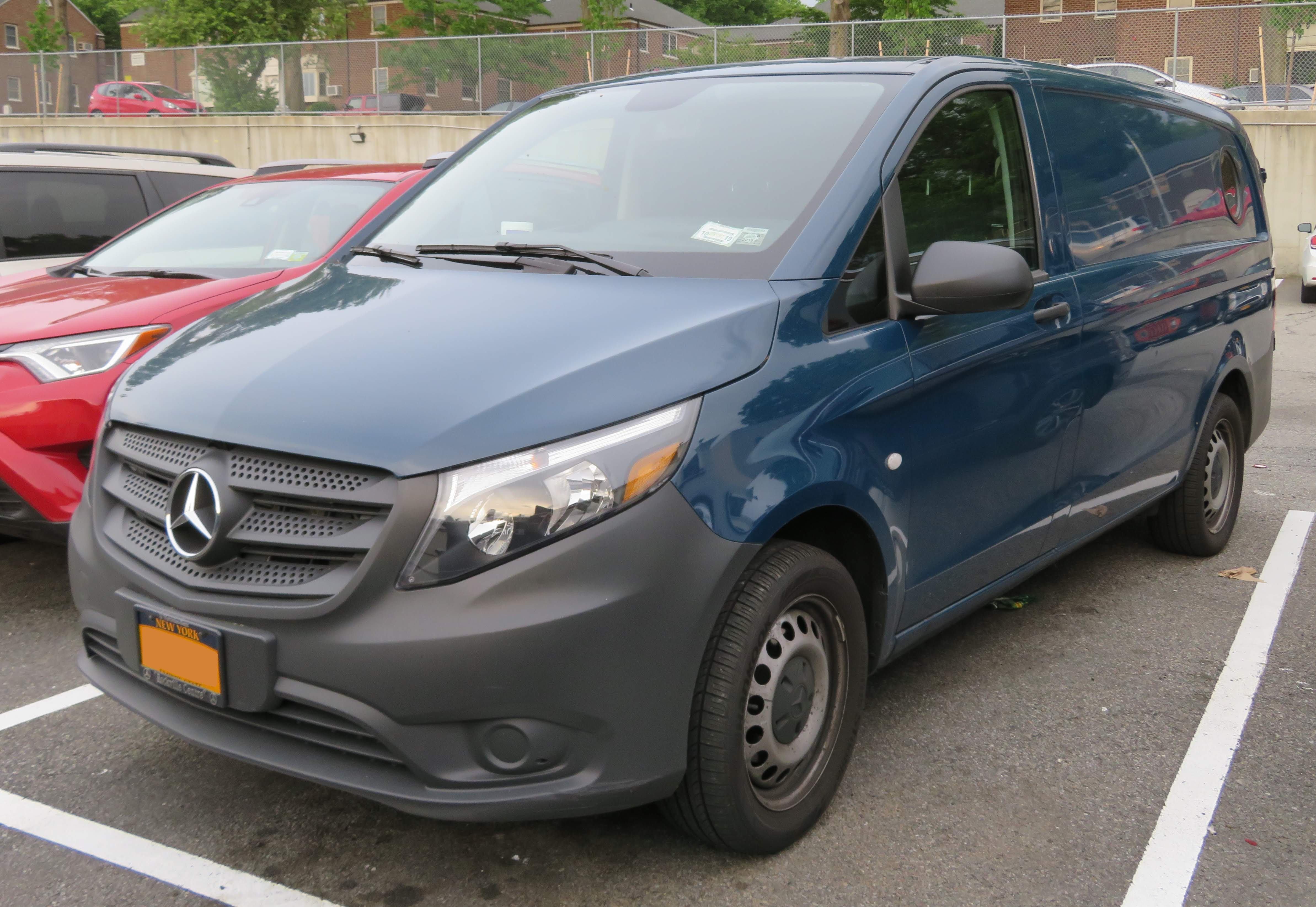 Photographed in Little Neck(Queens), New York